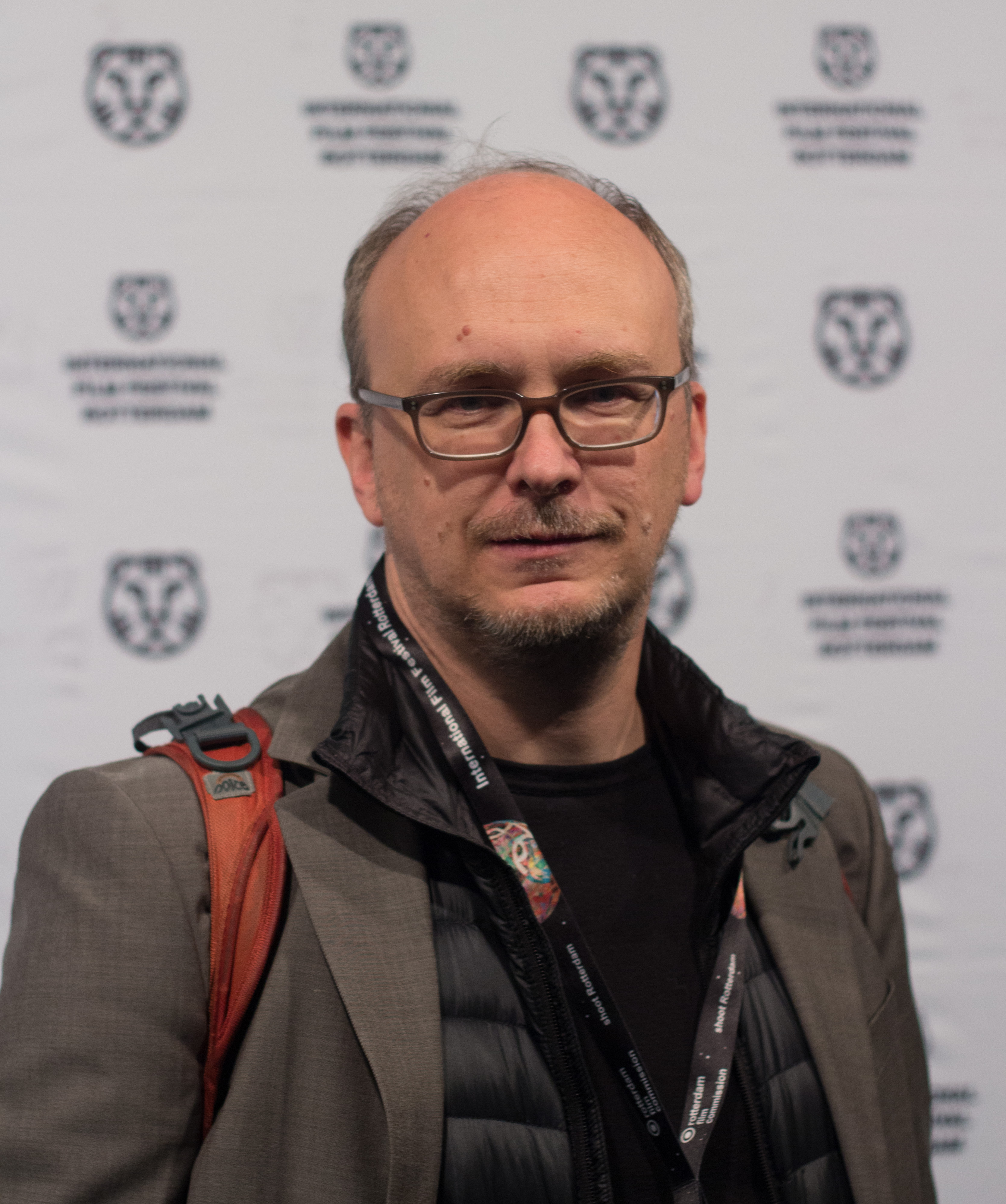 David Barker at the international film festival Rotterdam 2017